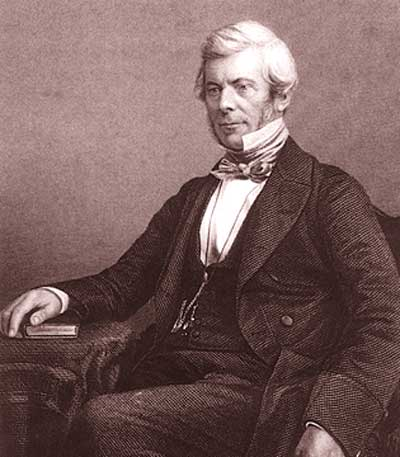 William Chambers junior 1809-1882